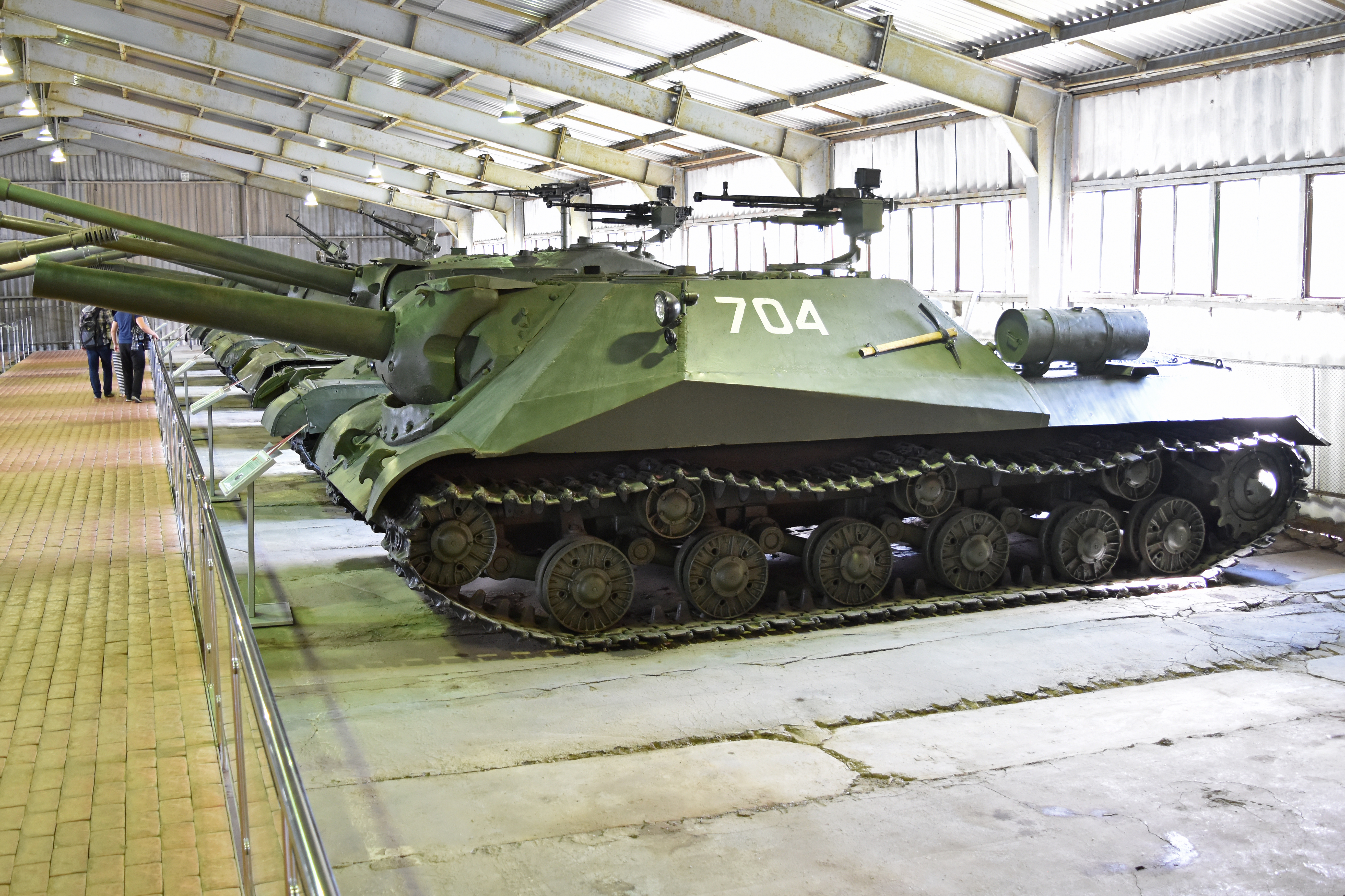 Design No:- Object 704. Built:- 1945 at the Chelyabinsk Kirovsk Plant. Main armament:- 152mm gun-howitzer, model ML-20SM. The standard ISU-152 replaced the SU-152 and used the same 152mm gun-howizter, but mounted on an IS-2 Heavy Tank chassis. ‘Object 704’ was a prototype developed using elements of the IS-2 and IS-3, and although being the best protected of all Soviet self-propelled guns during WW2 it was complicated for the crew to operate and did not go into production. This remaining prorotype is on display in what is best known as Hall1 of the Kubinka Tank Museum, although its official title is now Pavilion 1 in Area 2 of the Park Patriot museum. Kubinka, Moscow Oblast, Russia. 24th August 2017.